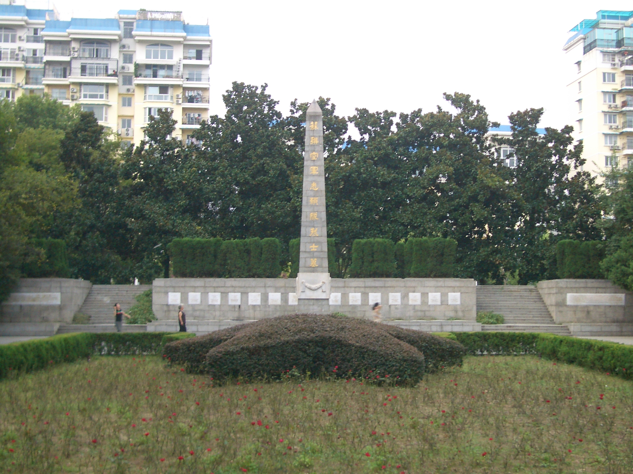 Monument at the graves of the Soviet aviators who died while fighting the Japanese invaders in 1938. (Jiefang Park, Hankou, Wuhan)